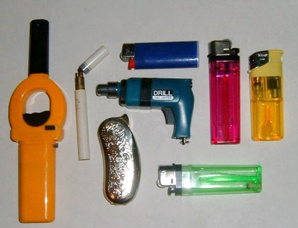 Some kinds of lighters (owner User:Peng)